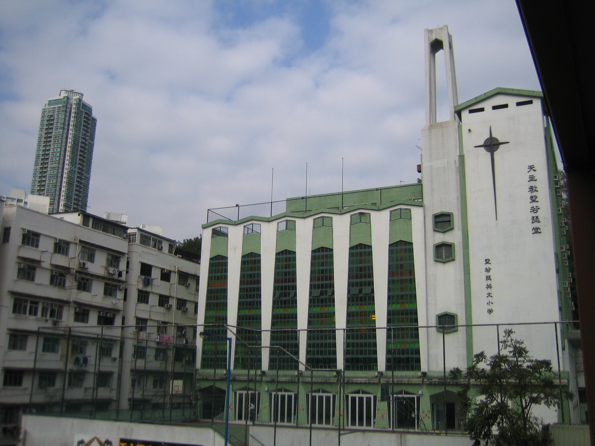 This is the campus of SJACPS, Hong Kong. If you have any questions about the licensing (like cc-by-sa, GFDL), or you want to republish the image without using the licensing shown as below, you are welcome to leave a message on the User Talk Page of my Chinese Wikipedia account. 中文（香港）: 這照片是香港九龍聖若瑟英文小學校舍。 如你對這照片版權許可協議 (例cc-by-sa, GFDL) 有疑問，或你想把照片不用以下的版權協議轉載，歡迎你到我在中文維基百科的用戶對話頁留言。